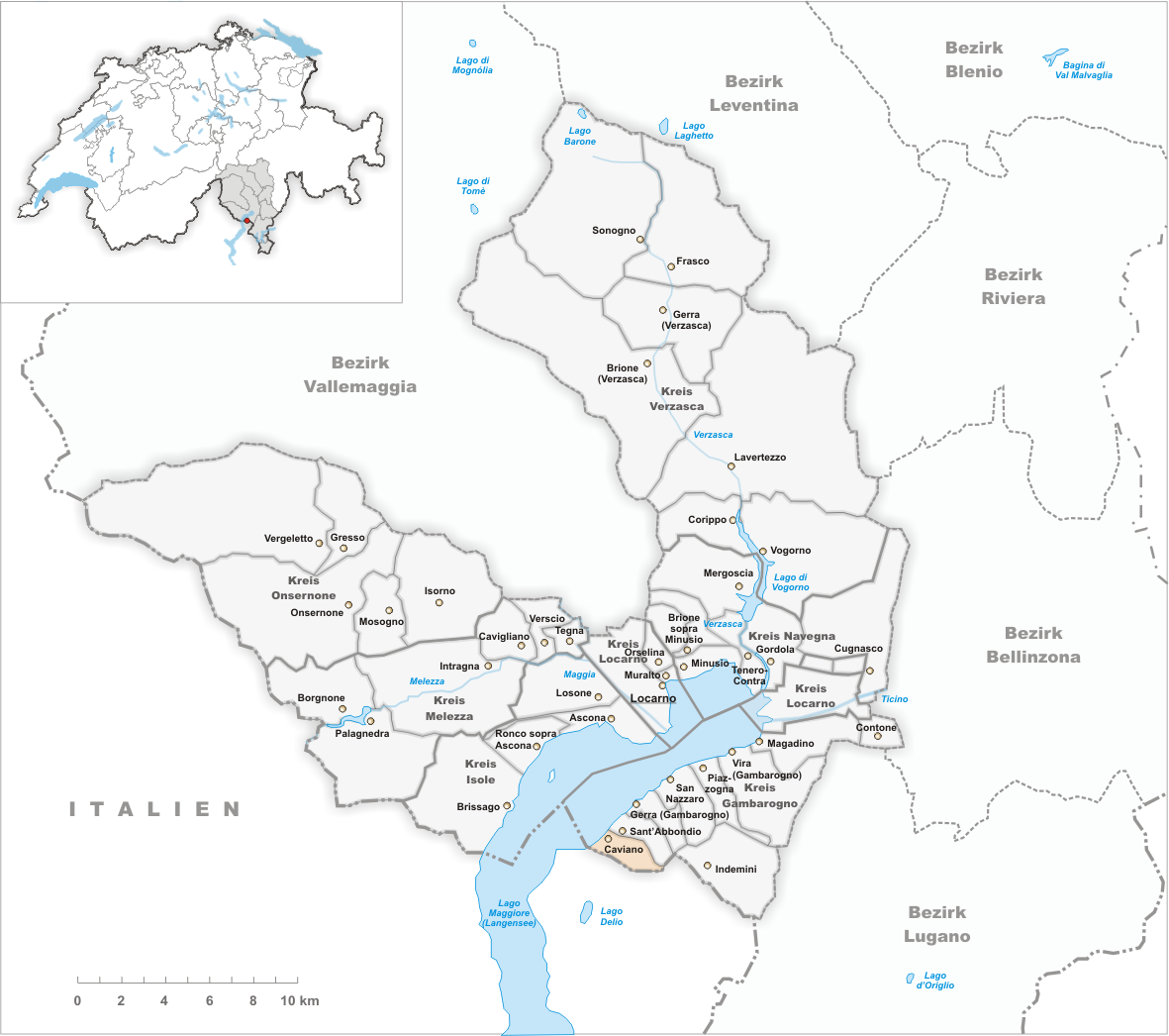 Municipality Caviano